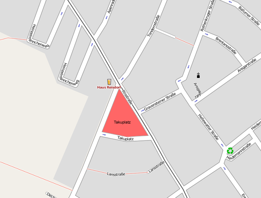 This map of Takuplatz, Cologne was created from OpenStreetMap project data, collected by the community. This map may be incomplete, and may contain errors. Don't rely solely on it for navigation.